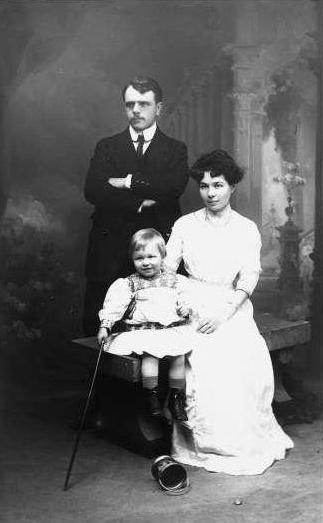 Young Olivier Messiaen with his father and mother in Avignon, 1910